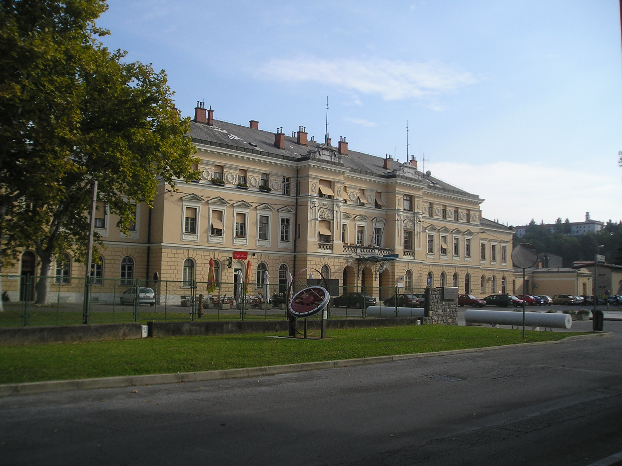 Train station in Nova Gorica, Slovenia, view from Via Ugo Foscolo in Gorizia (Italy)